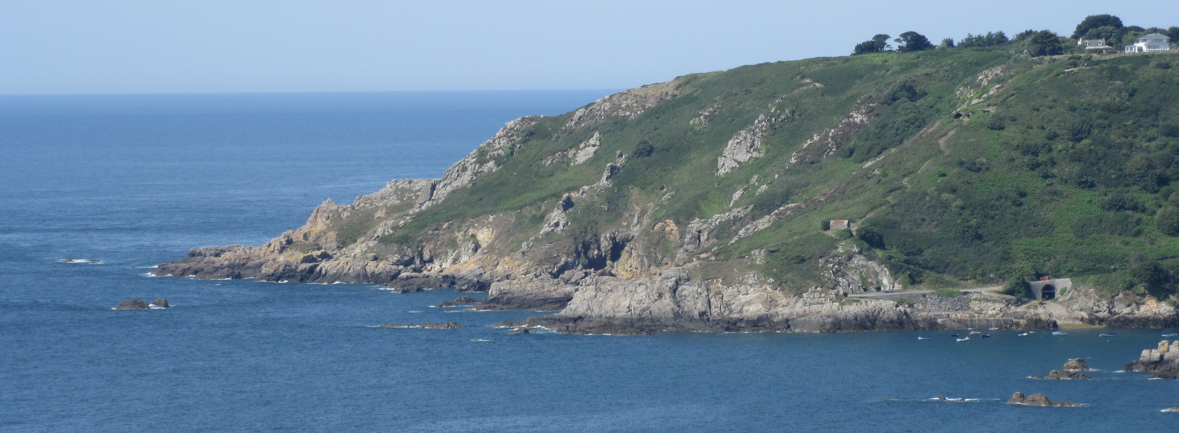 Guernsey, July 2011: Icart Point, beyond Moulin Huet Bay